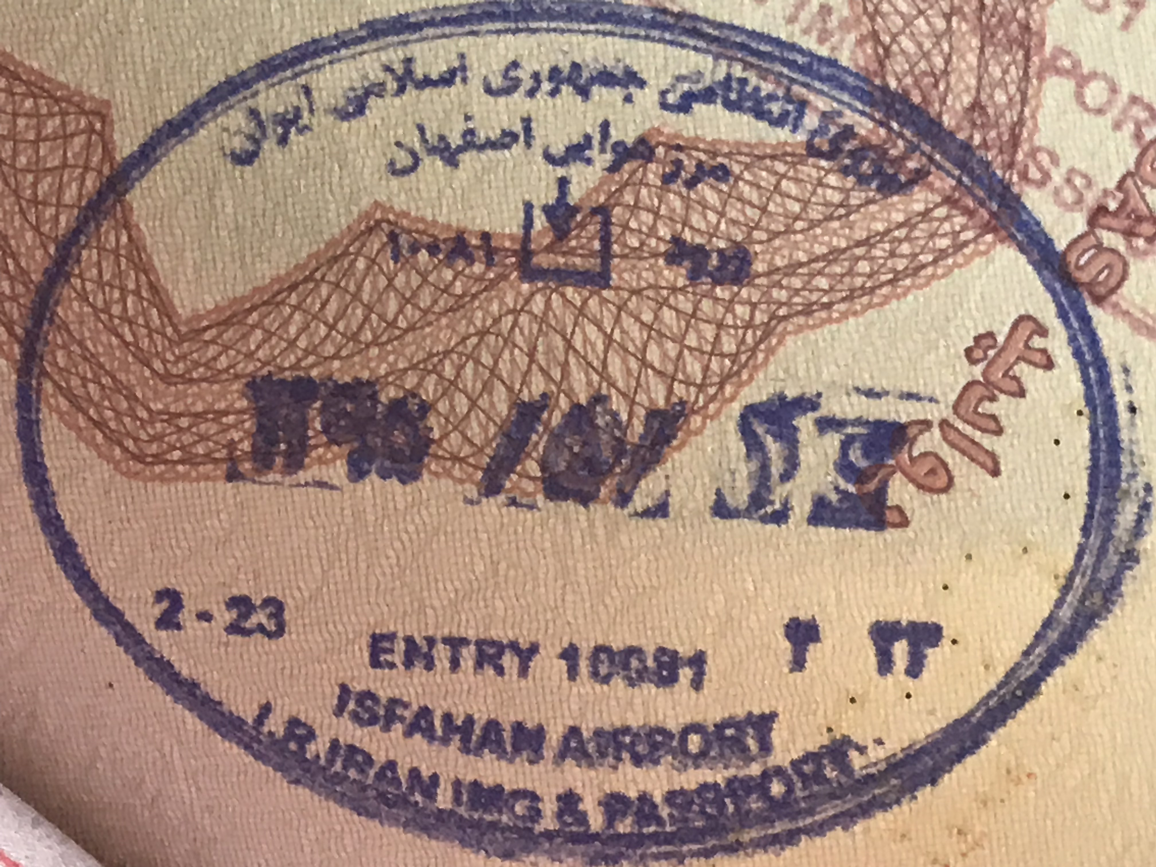 Entry stamp at Isfahan International Airport in a Iranian passport